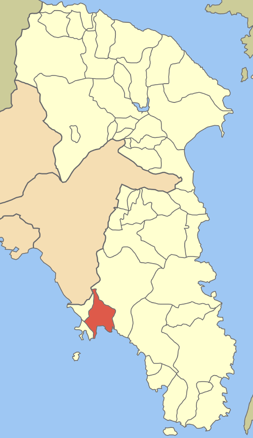 Locator map of Vari municipality (Δήμος Βάρης) in East Attica Nomarchia (Ανατολικής Αττικής) in Greece.